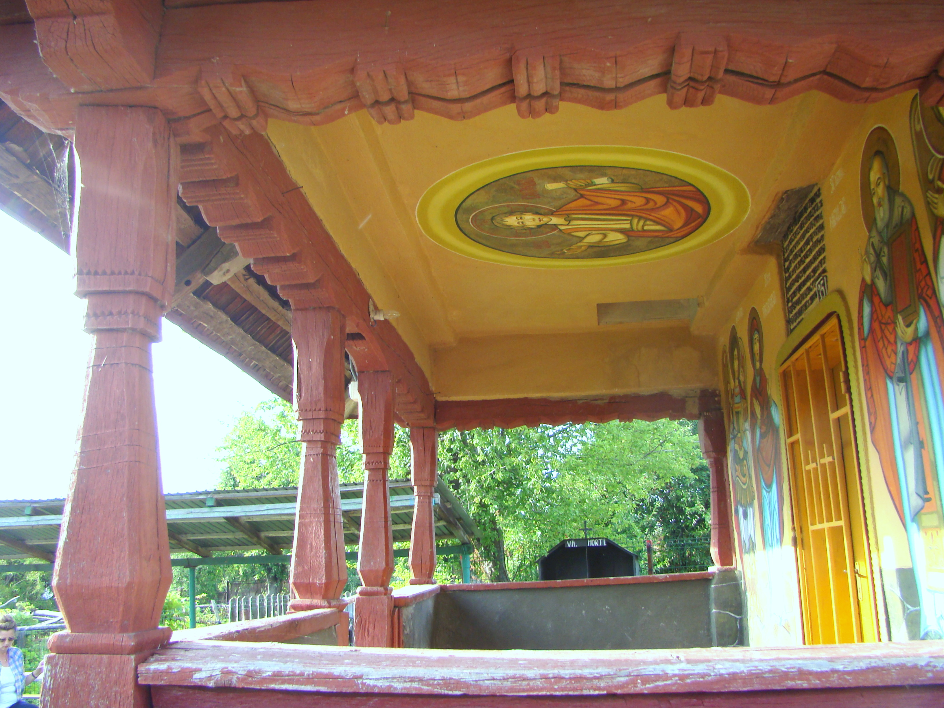 Wooden church in Becheni, Gorj county, Romania